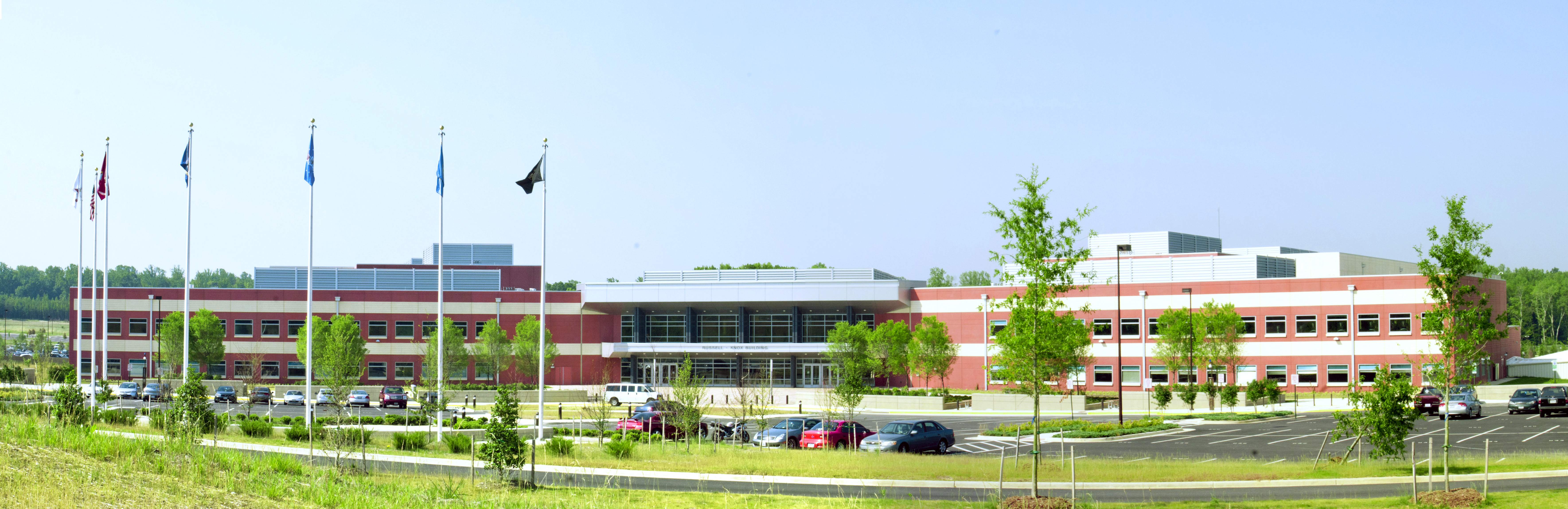 Russell-Knox Building, headquarters of the Naval Criminal Investigative Service Headquarters, 27130 Telegraph Road, Quantico, Virginia, USA